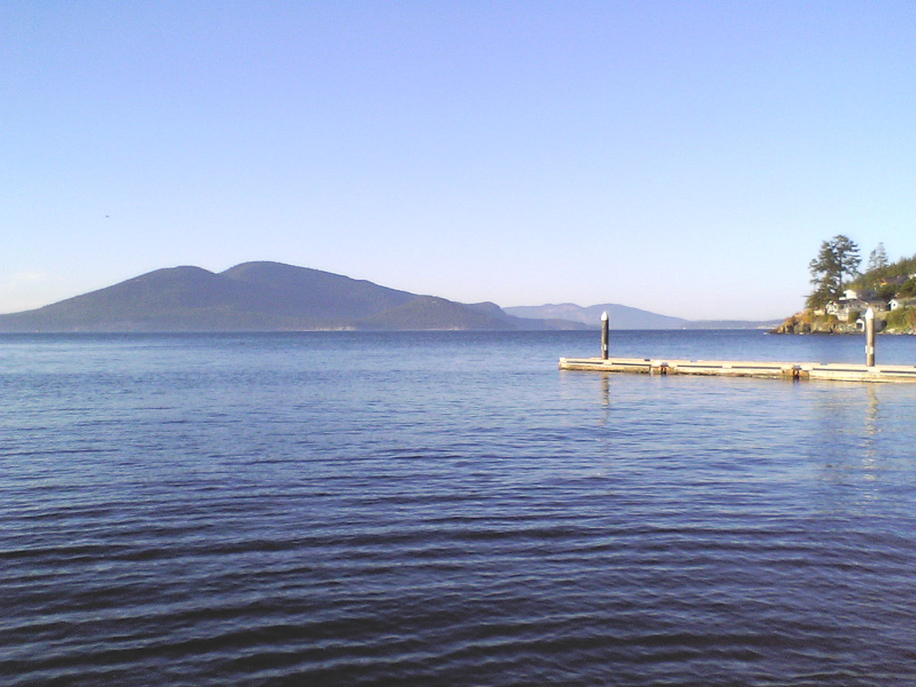 Photo of Cypress Island in the San Juan Islands from Washington Park in Anacortes, WA